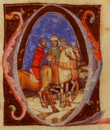 Charles I of Hungary